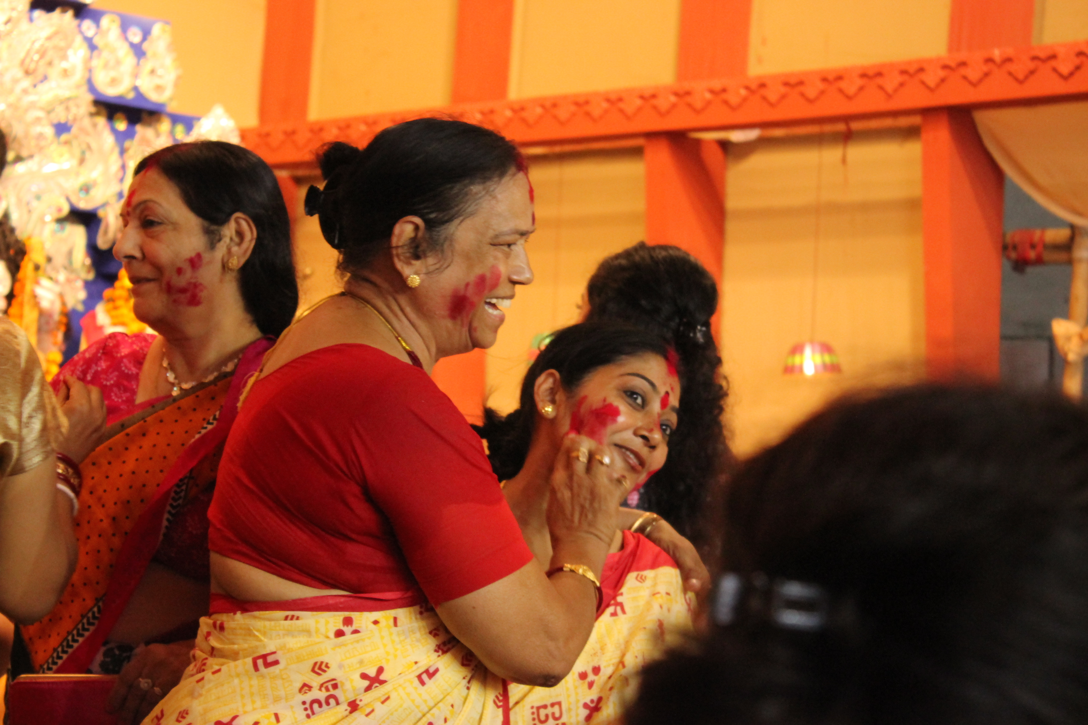 Durga Puja in at Bhopal Madhya Pradesh